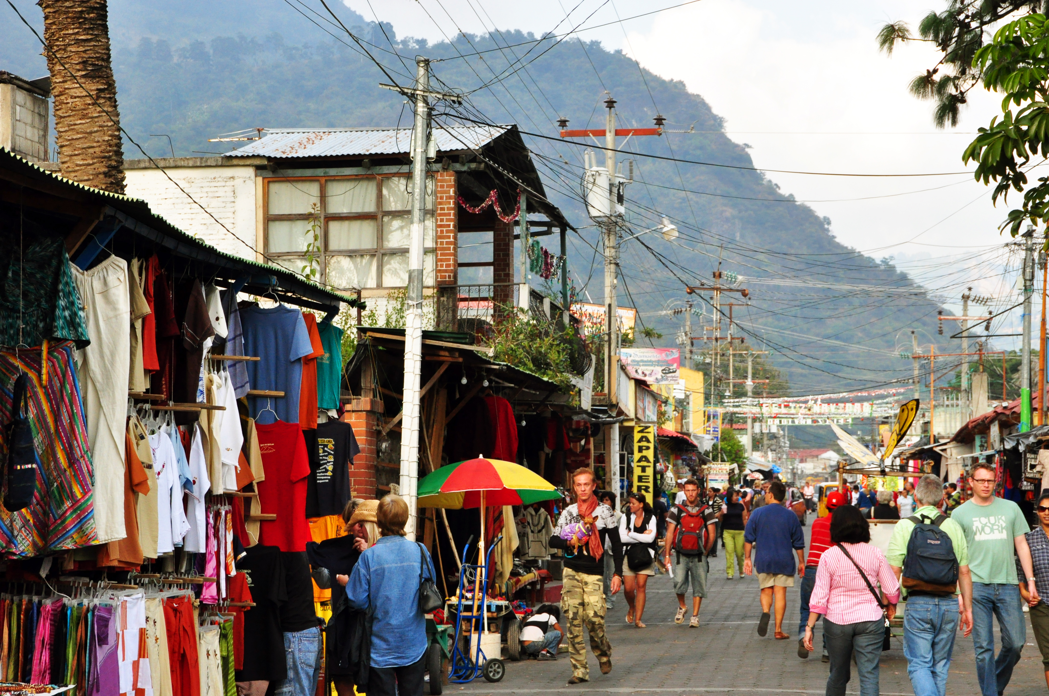 Panajachel Lake Atitlan Guatemala 2009 Calle Santandar